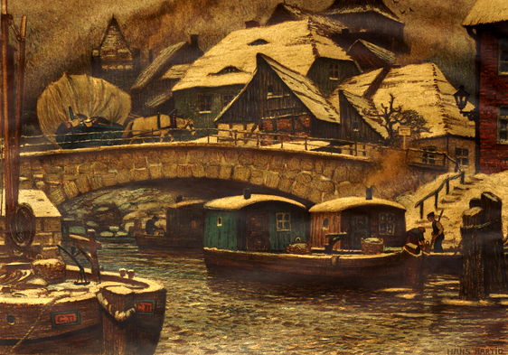 Treptow an der Rega